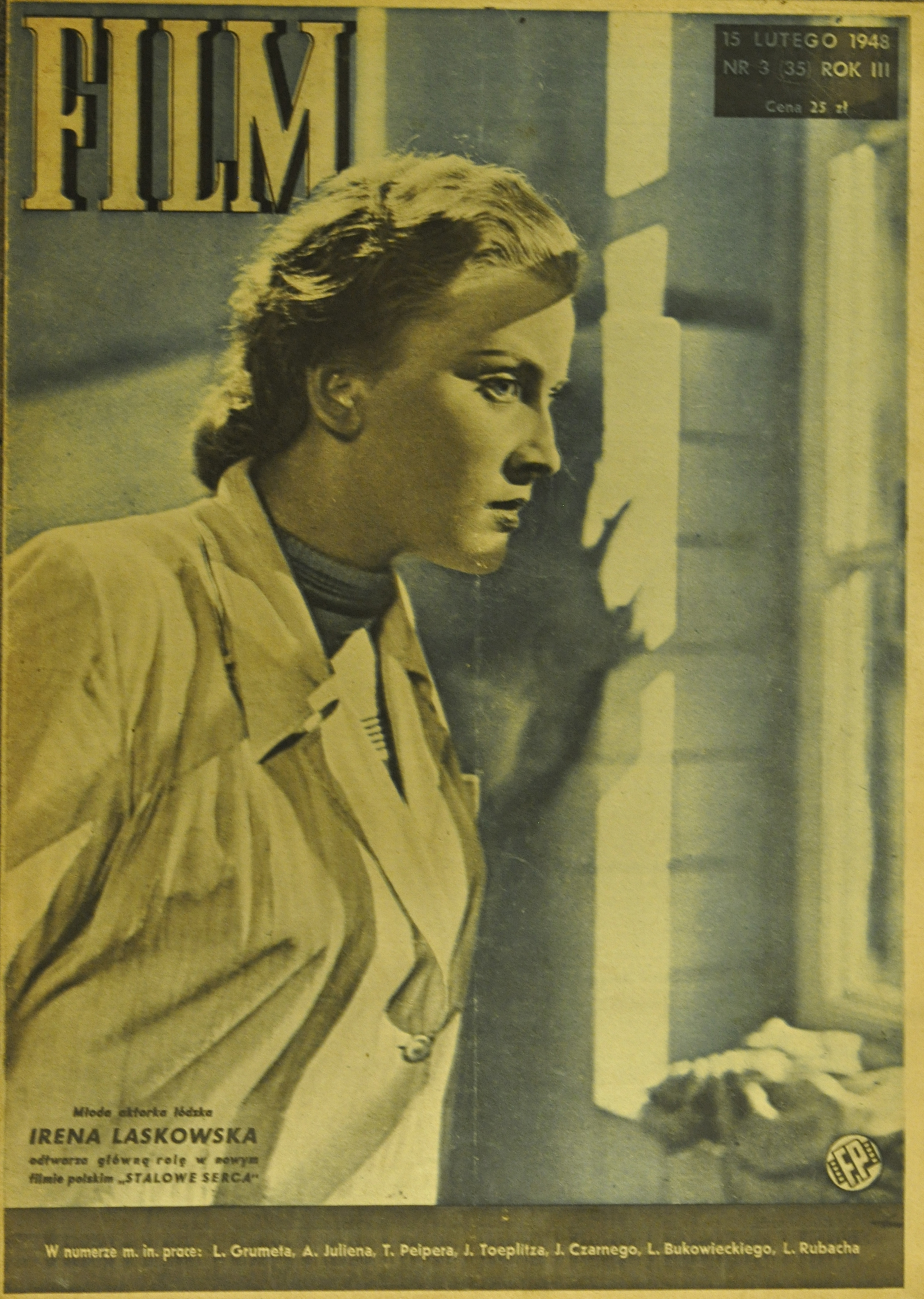 Front cover of Polish magazine Film Nr. 35 with Irena Laskowska